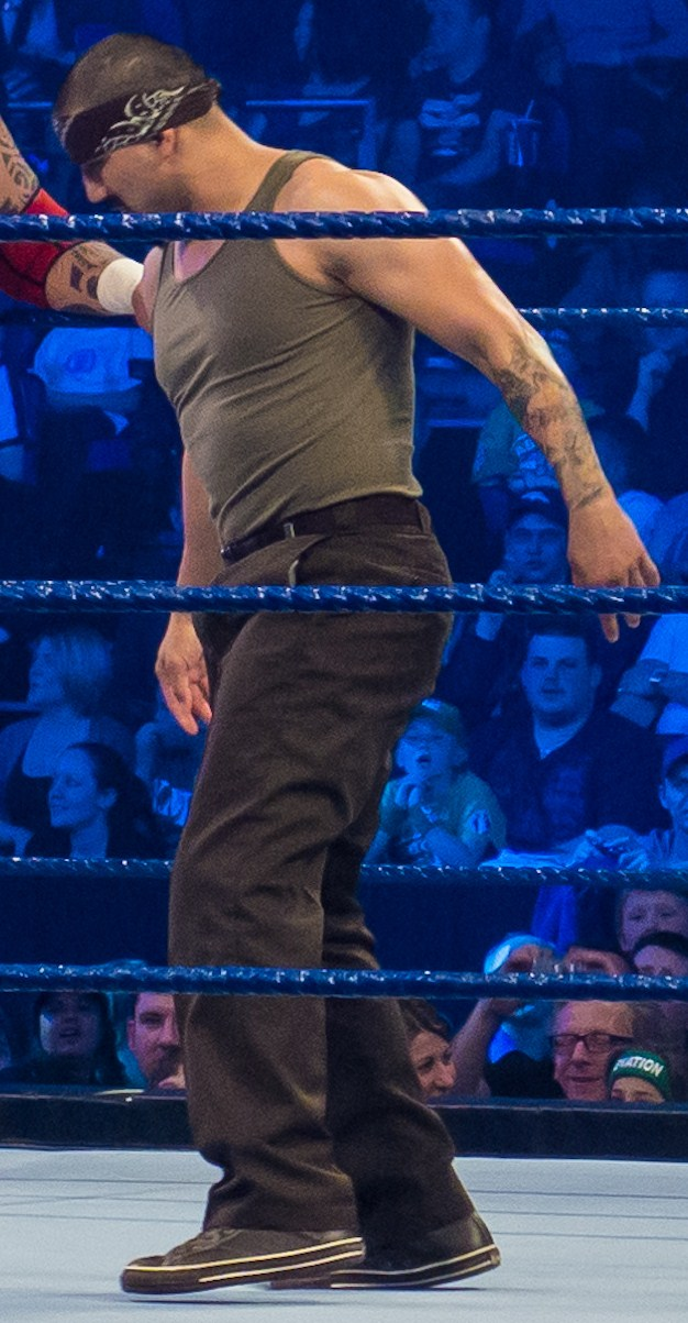 Hunico at the WWE SmackDown tapings on 17 April 2012.